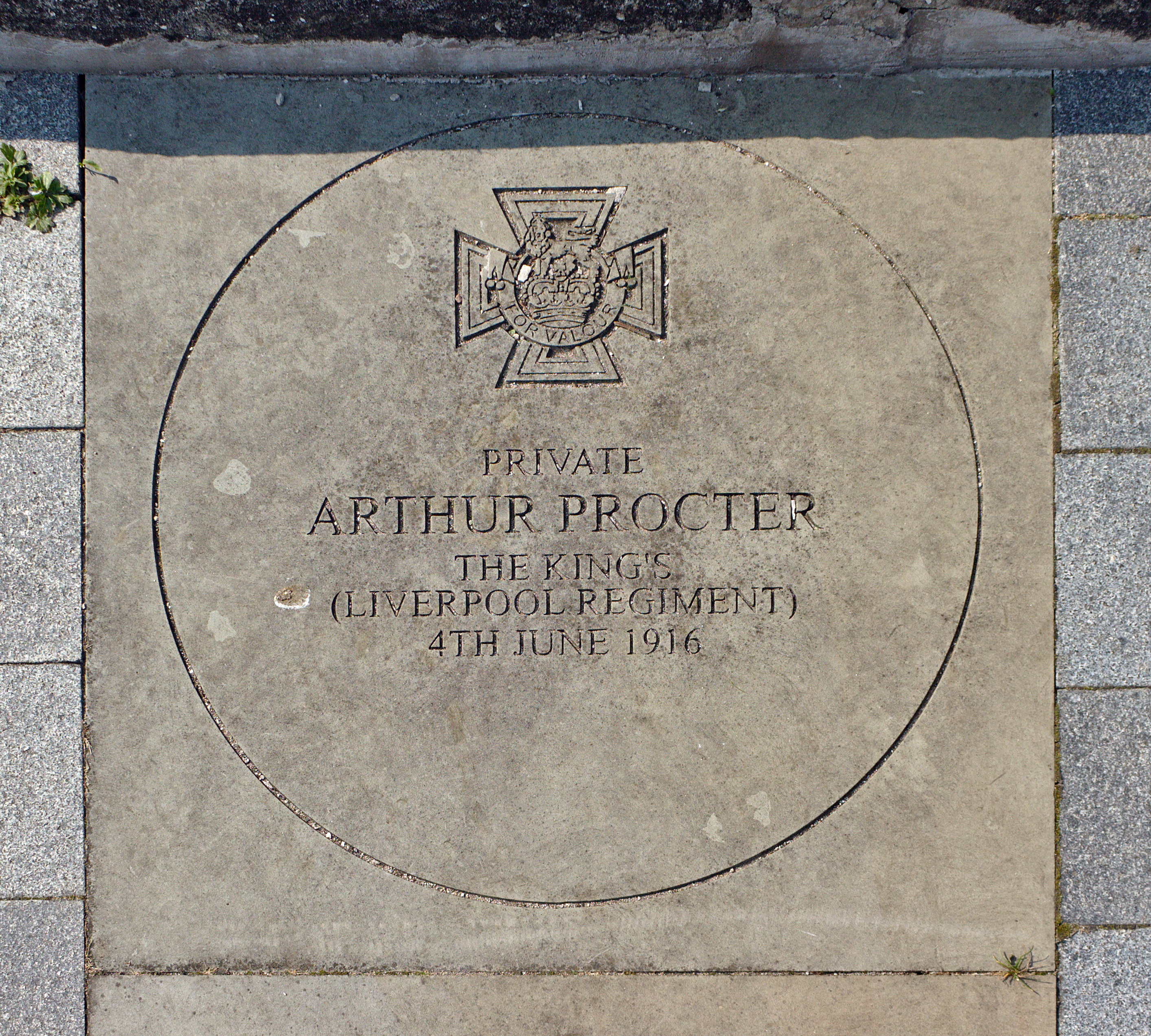 Paving stone memorial to Arthur Herbert Procter VC (1890 - 1973), VC 1916 in front of the Birkenhead Cenotaph.